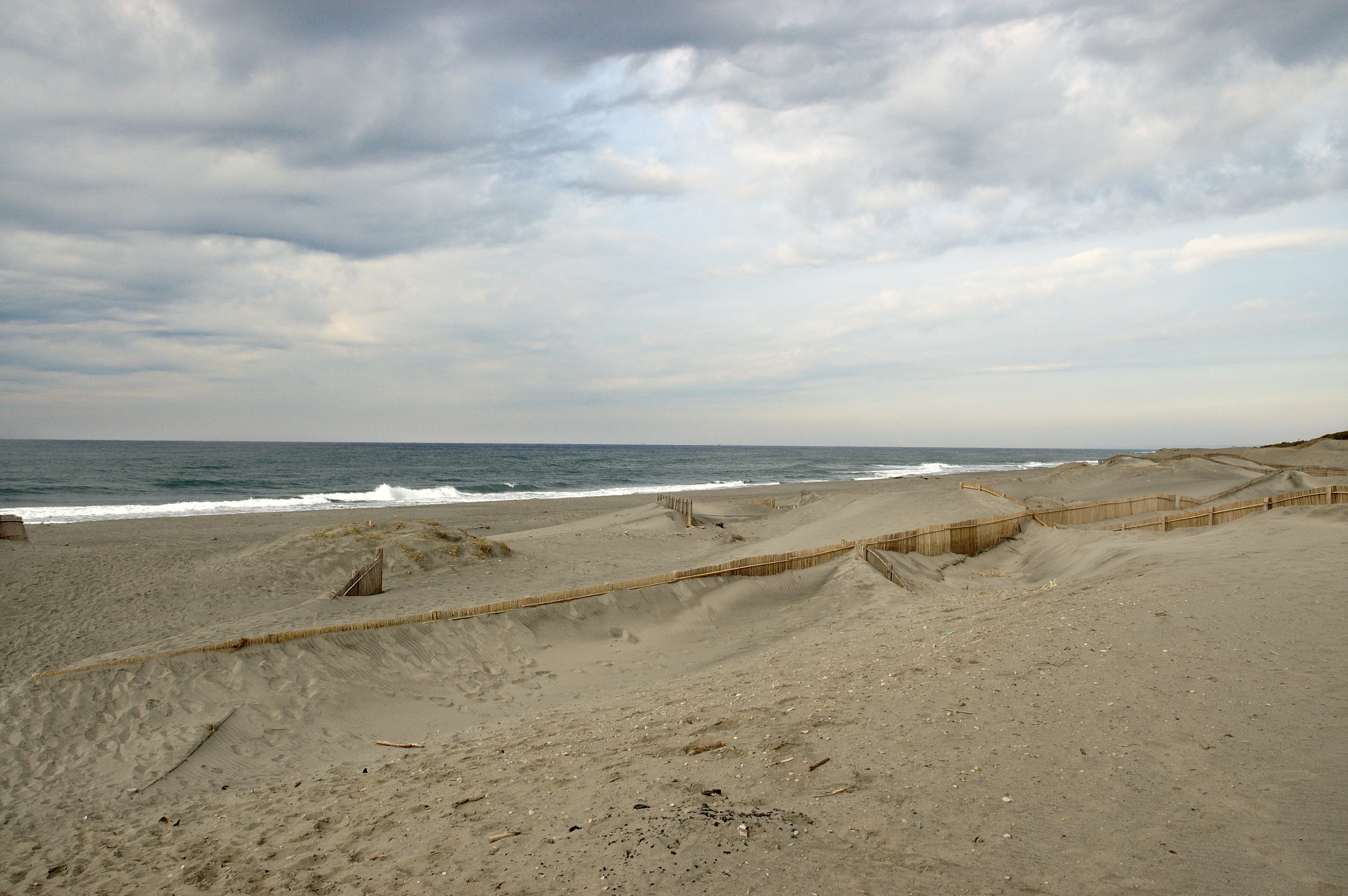 See above.